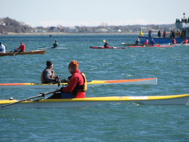 Rower awaits the start at the 32nd Annual Snow Row sponsored by the Hull Lifesaving Museum, Hull, MA